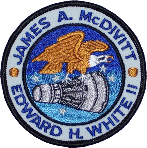 Gemini 4 patch